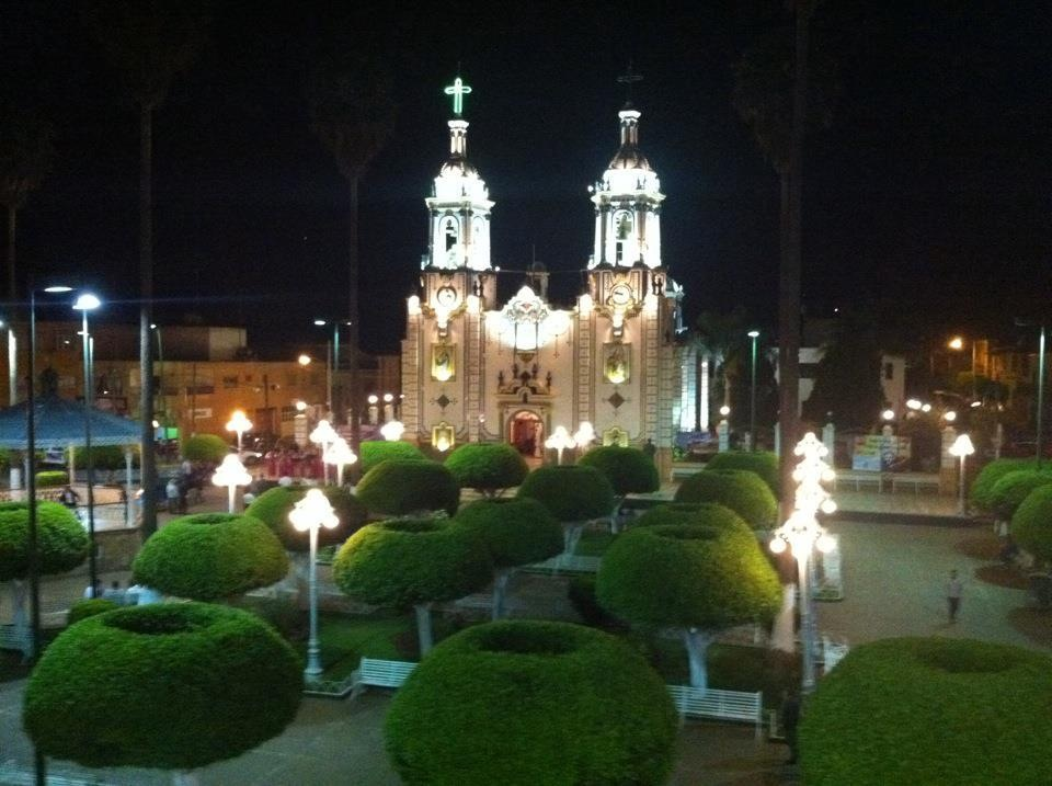 Church and aquare of San Ignacio Cerro Gordo Jalisco